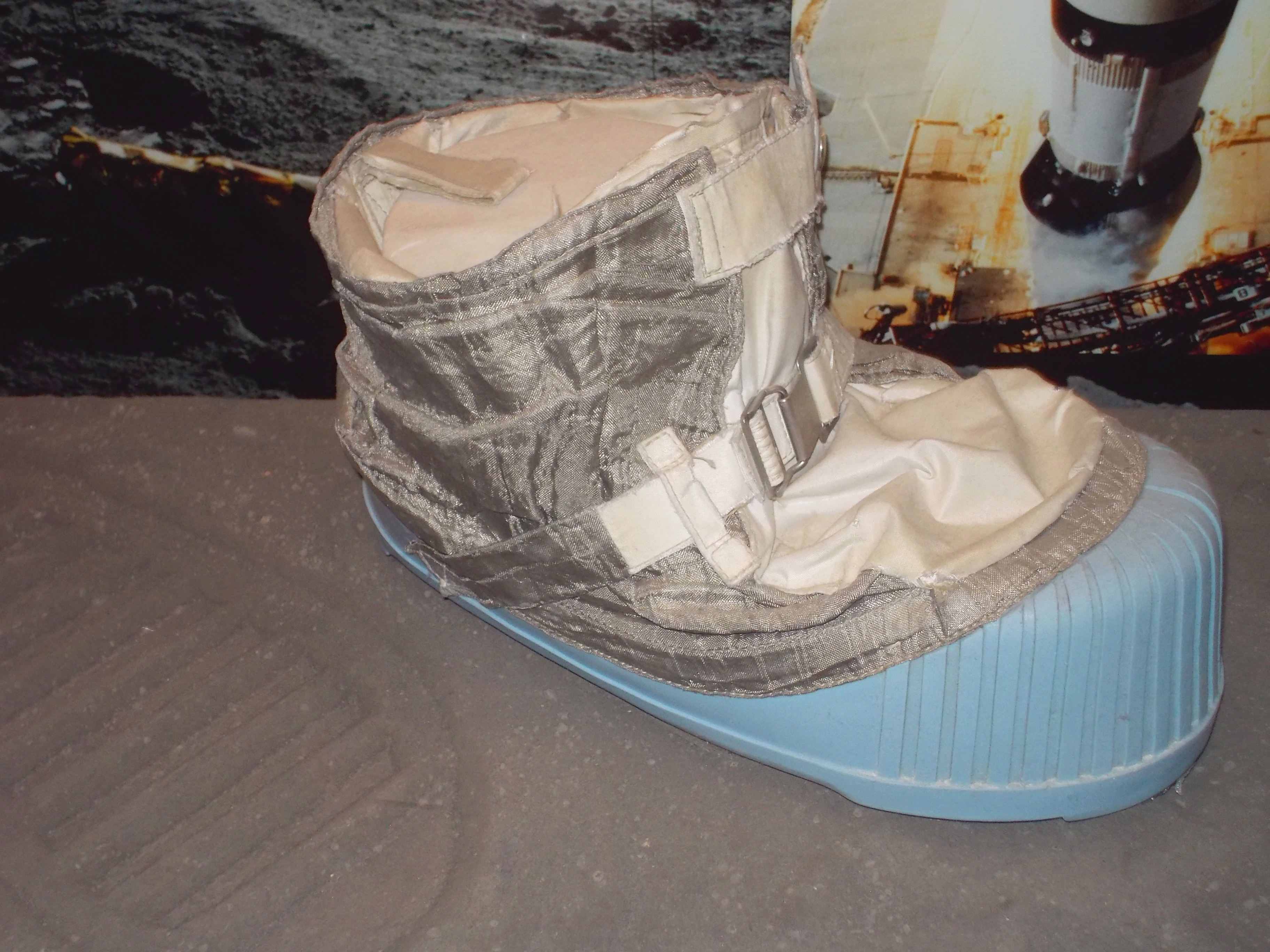 Moon boot